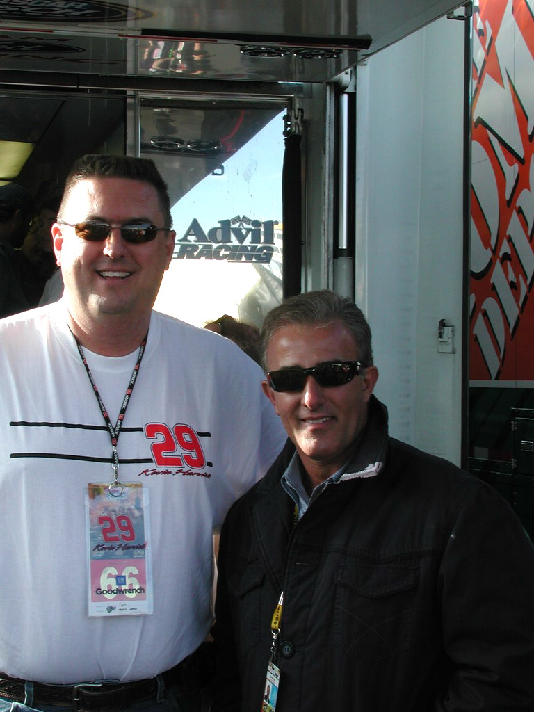 "Me hanging out with Derrike Cope"